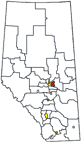 Map showing the location of Strathcona a provincial electoral district in Alberta under 2004 provincial boundaries.